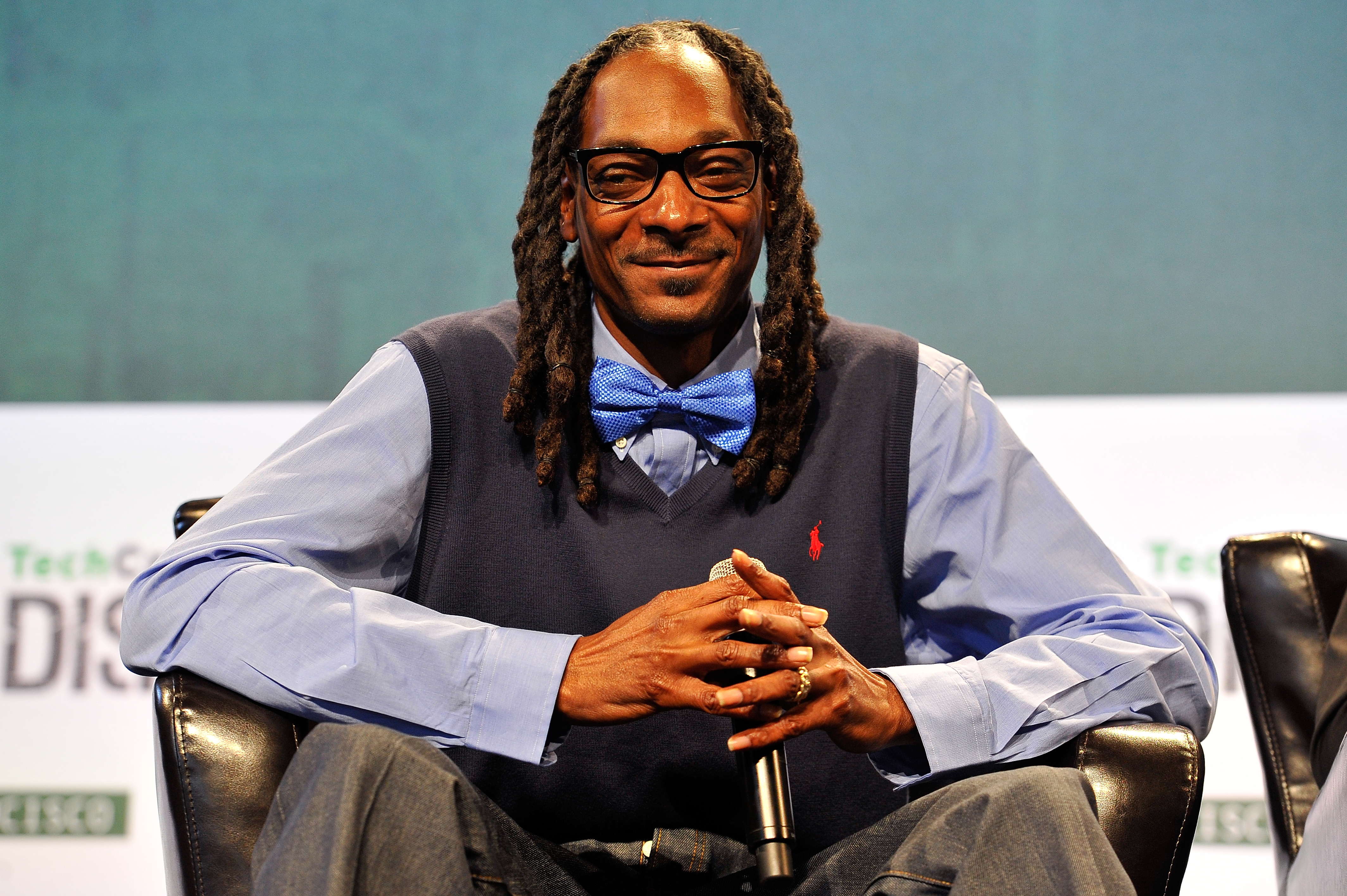 SAN FRANCISCO, CA - SEPTEMBER 21: Recording artist Snoop Dogg speaks onstage during day one of TechCrunch Disrupt SF 2015 at Pier 70 on September 21, 2015 in San Francisco, California. (Photo by Steve Jennings/Getty Images for TechCrunch)